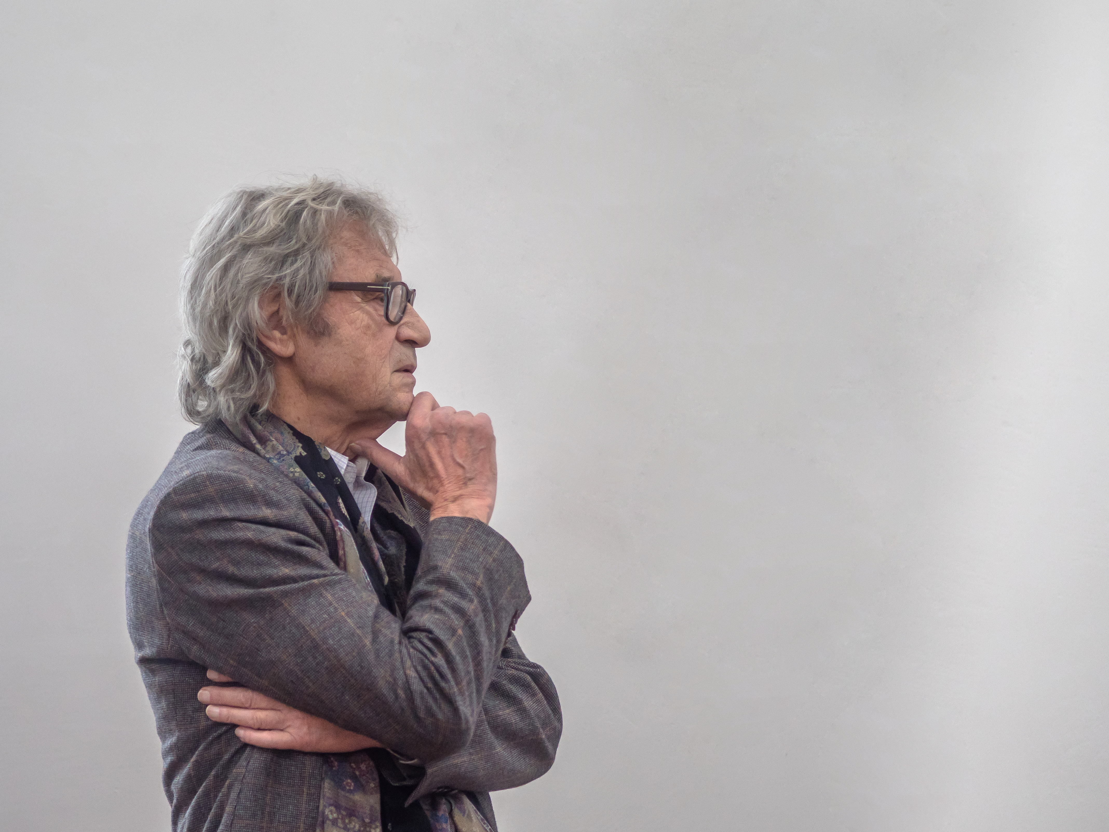 Alfonso Hüppi at Art.Plus, Donaueschingen, Grrmany